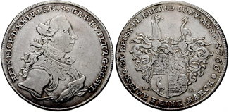 German States, Reuss-Ebersdorf. Heinrich XXIV. 1747-1779. AR 1 Konventionsthaler (41mm, 27.76 g). Dated 1766. Bare-headed, draped, and cuirassed bust right Helmeted ducal coat-of-arms. Davenport 2642; KM 21.